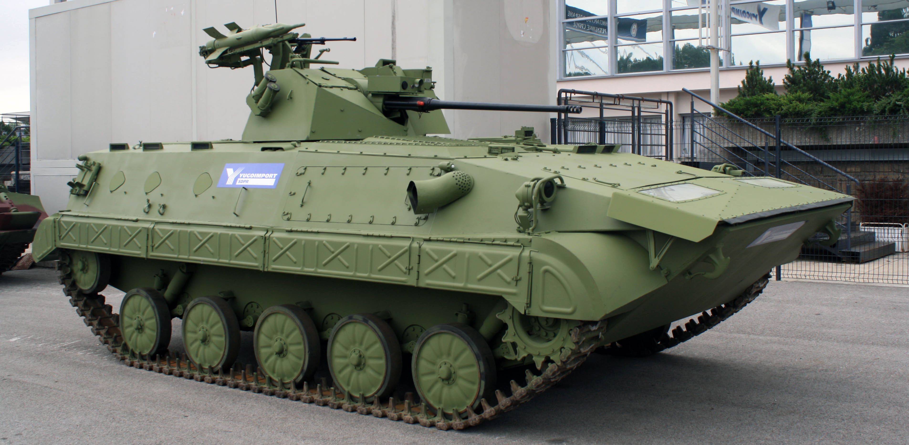 BVP M-80A Vidra modernized IFV on display at "Partner 2011" military fair.